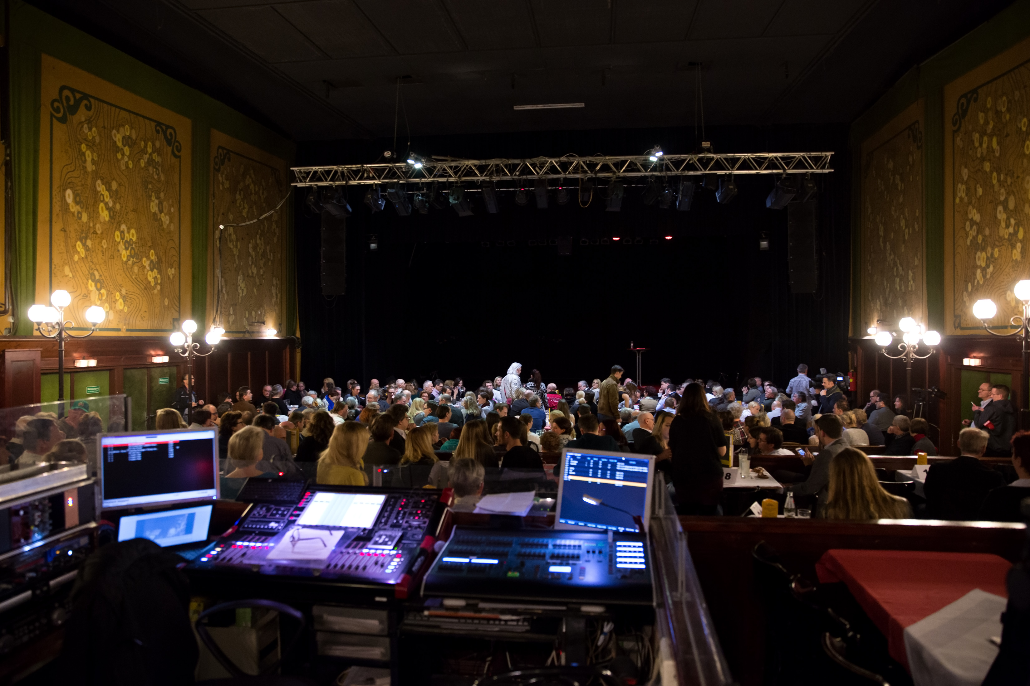 Orpheum in Vienna, Austria on the evening of the premiere of Nina Hartmanns third solo comedy program 'Schön, dass es mich gibt'.